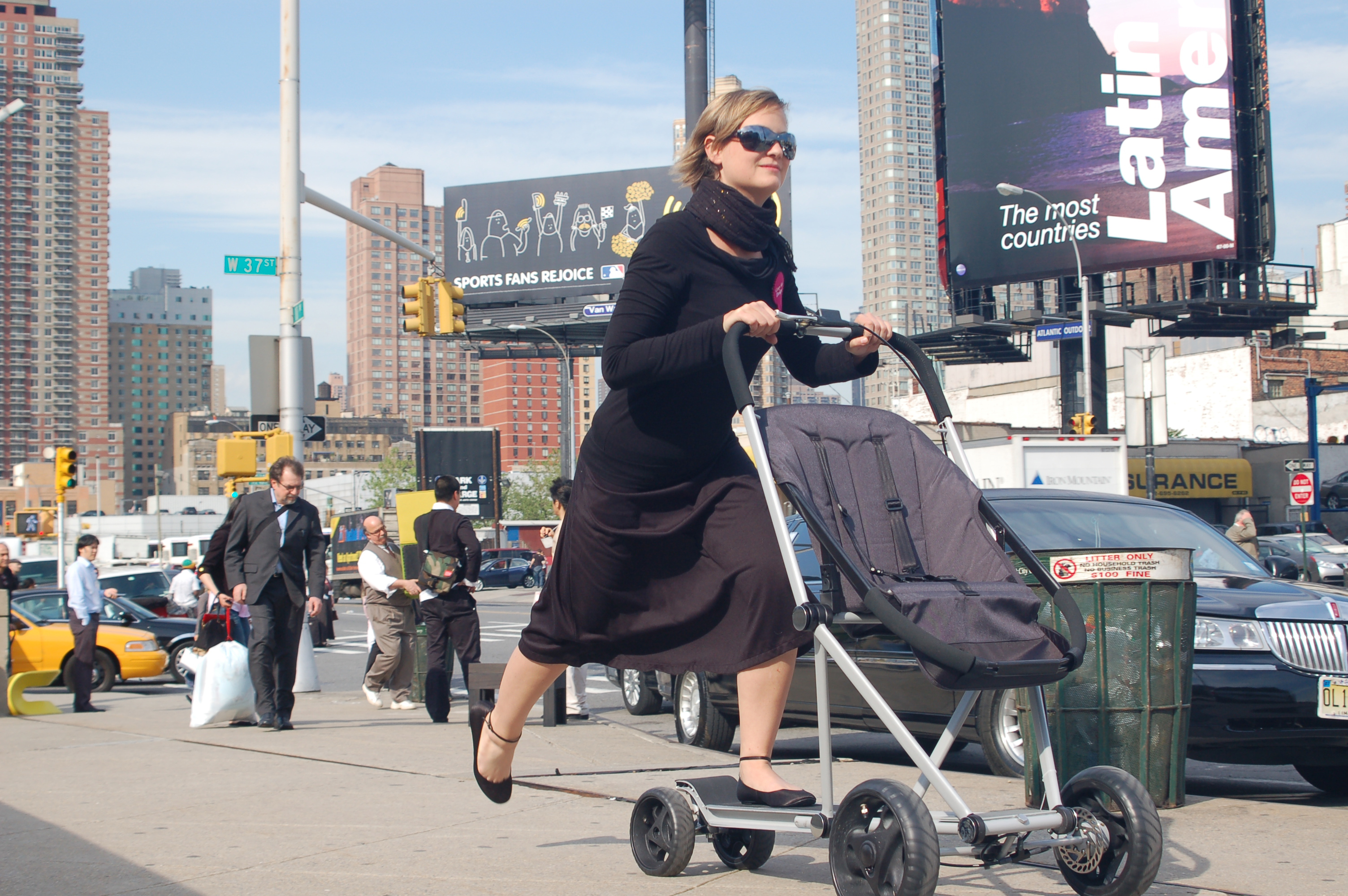 The Roller Buggy is a stroller that transforms into a scooter.